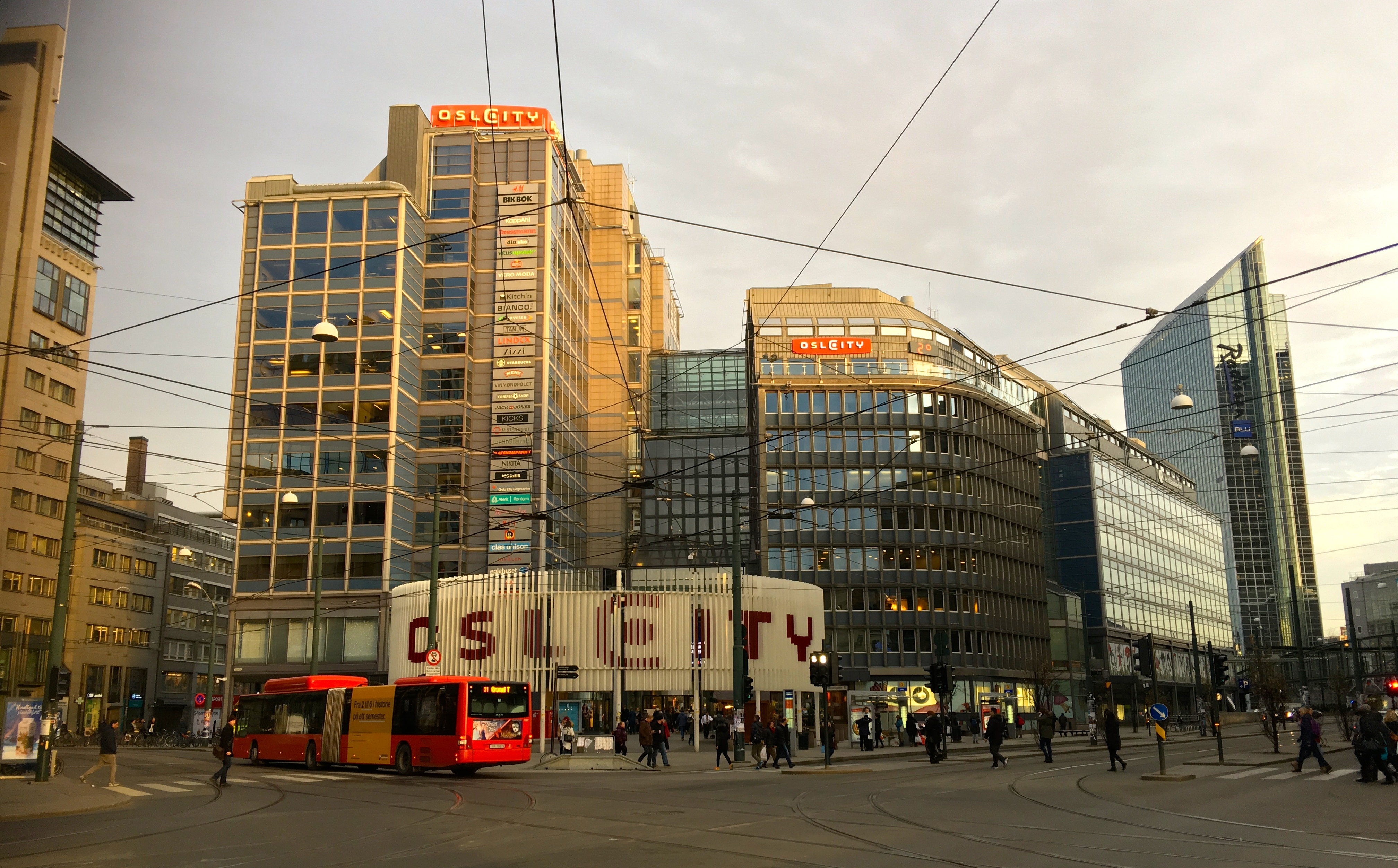 Oslo City shopping mall 29th November 2016